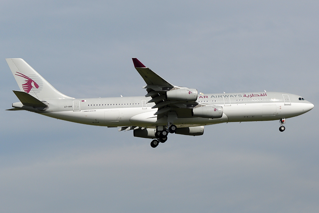 Qatar Amiri Flight Airbus A340-200 (registration A7-HHK) landing in Zurich